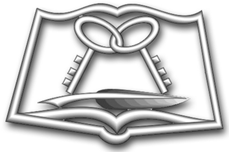 US Navy Culinary Specialist (CS). Crossed keys and quill superimposed upon an open ledger.